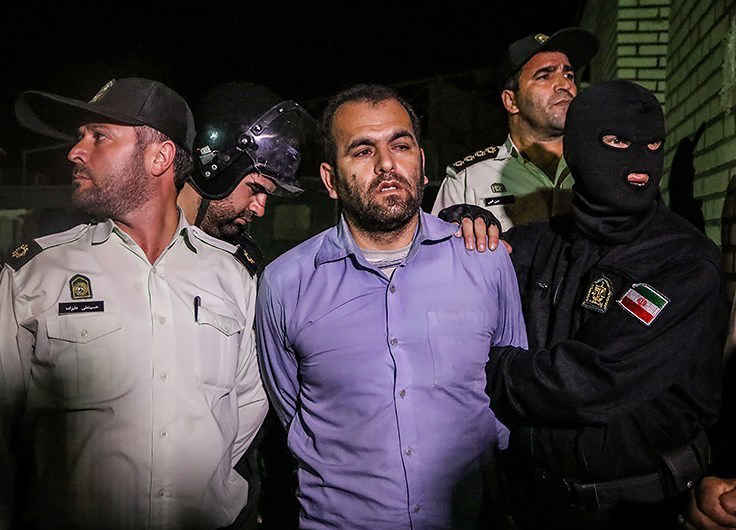 Esmail Jafarzadeh (42) was publicly executive after being found guilty of the rape and murder of 7 year old girl Atena Aslani. The case caused outrage in Iran and the perpetrator was publicly executed at dawn in a public square in Parsabad.